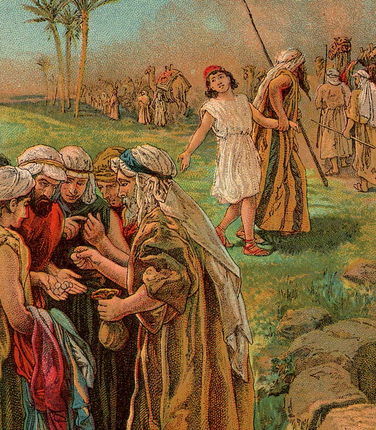 Joseph Sold by His Brothers, as in Genesis 37:5-28; illustration from a Bible card published by the Providence Lithograph Company